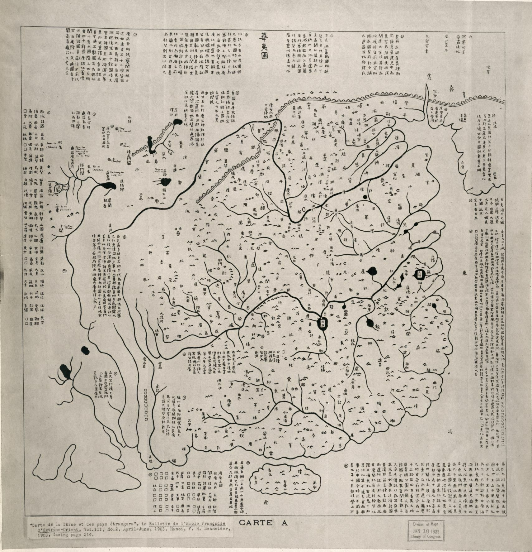 華夷圖。Map of China and foreign tribes, a map engraved on stone in 1136 A.D. This map was drawn from a stone rubbing of the original map with added annotations in pencil for publication in a French journal in 1903